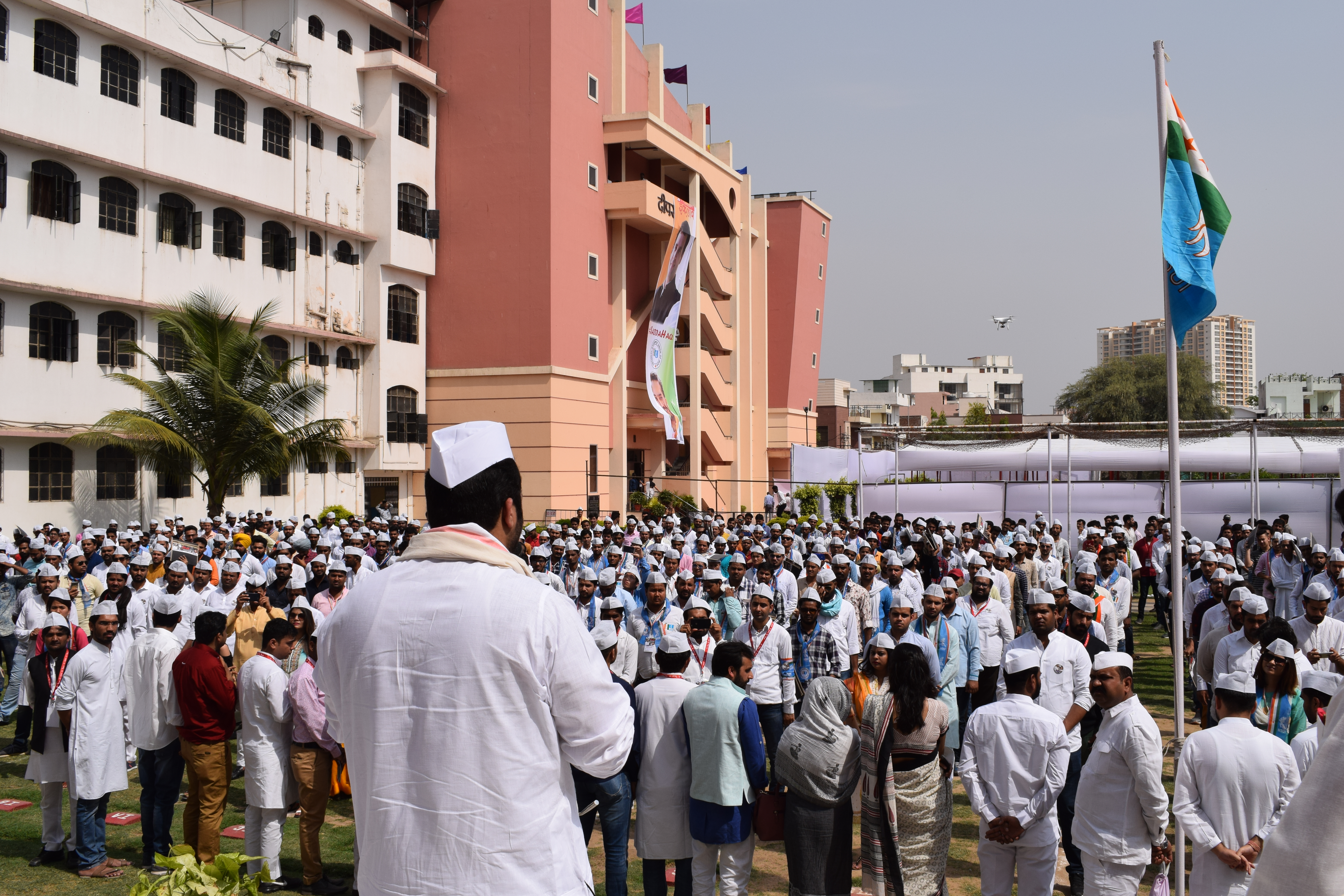 Inquilab is the first-of-its-kind conference, as the NSUI is calling all its elected office bearers starting from college units to the national team. This is Rahul ji’s brain child and the aim of the conference is to bring a revolutionary change in the organisation